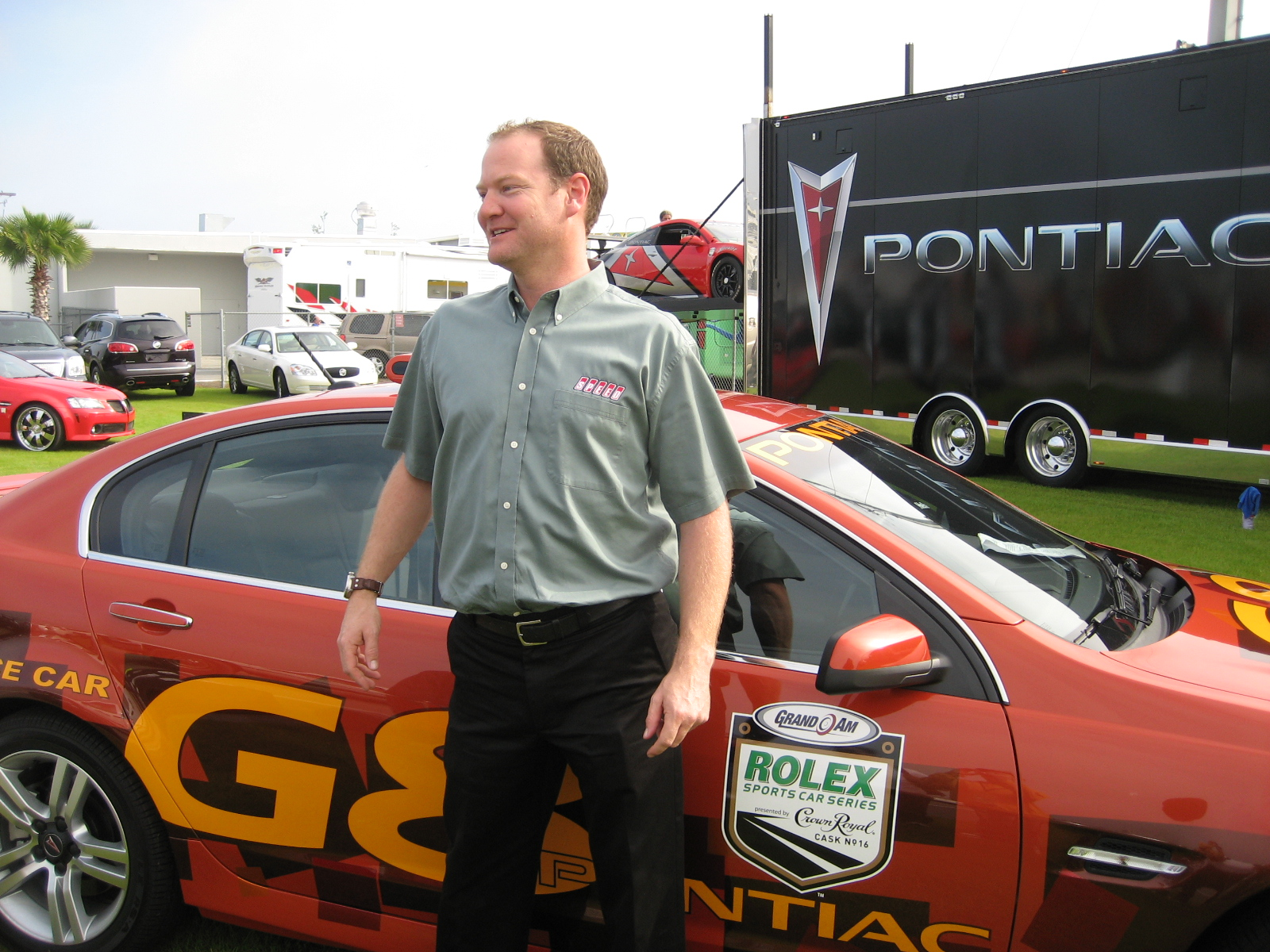 Tommy Kendall poses in front of the pace car for the 2008 Rolex 24 Hours of Daytona.